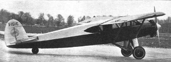 1930 Verville Aircraft Company Air Coach